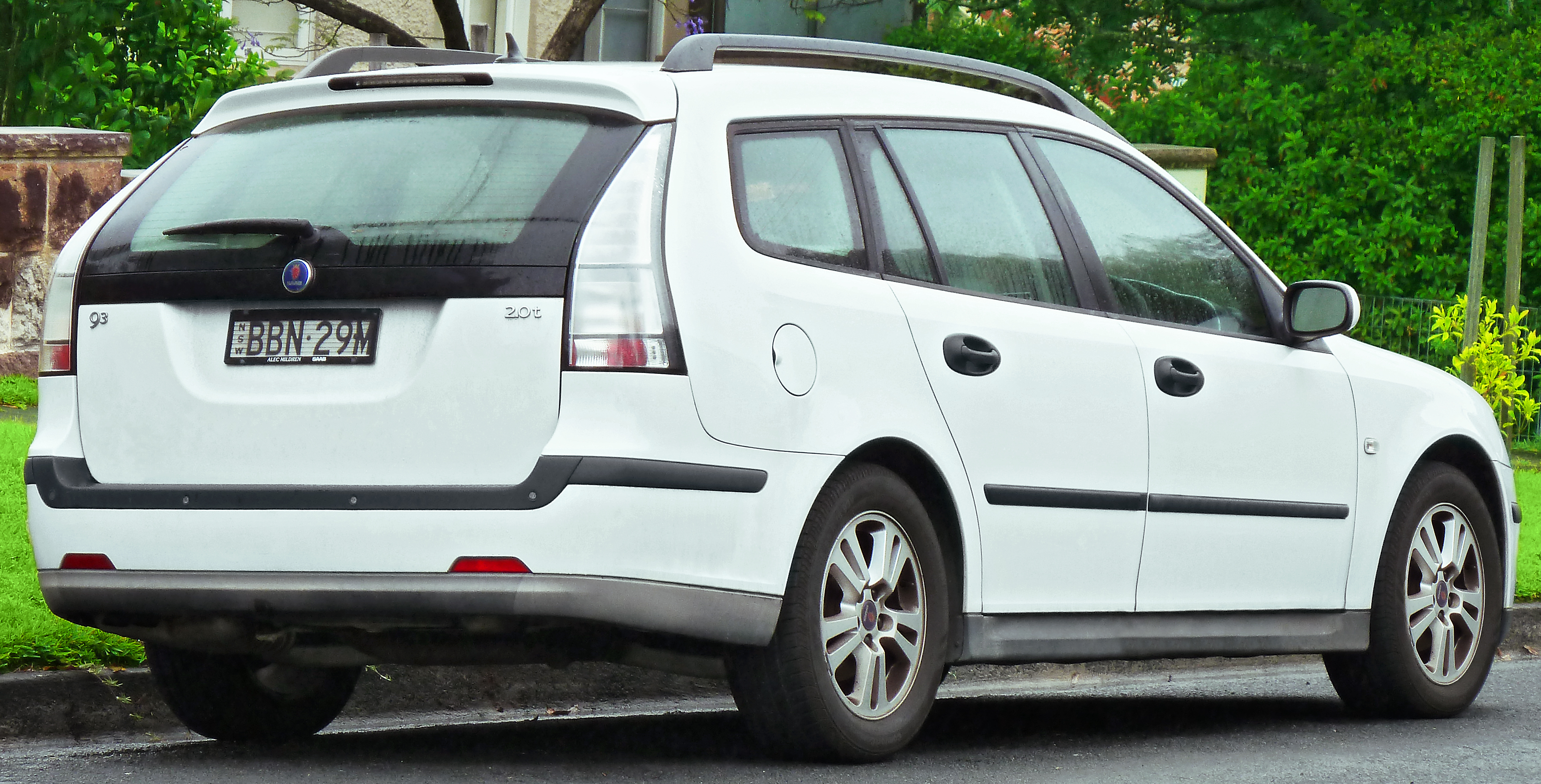 2006–2007 Saab 9-3 Linear 2.0t SportCombi. Photographed in Roseville, New South Wales, Australia.